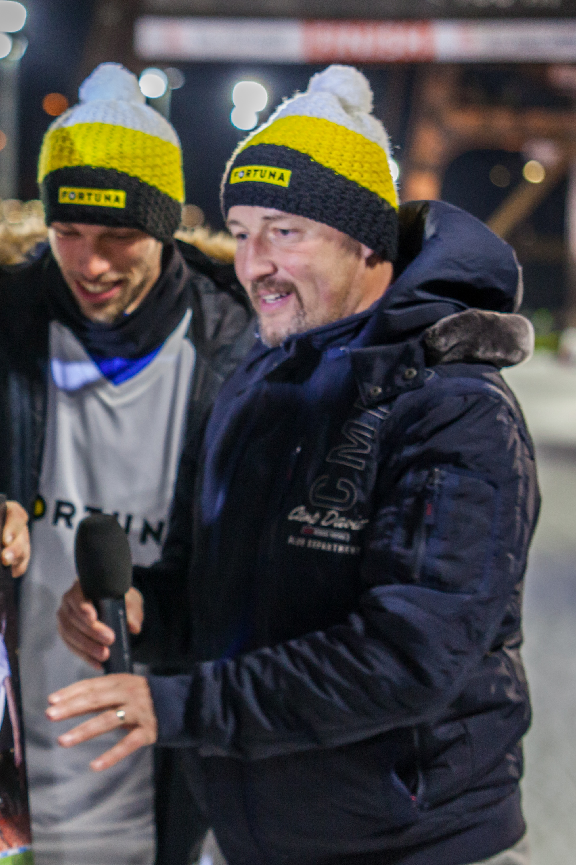 Luděk Zelenka on cross-country race ČEZ City Cross Sprint 2019